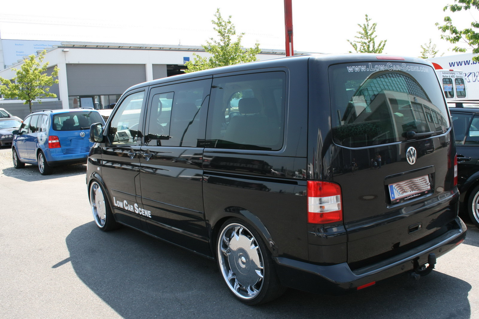 A Low Car Scene Car